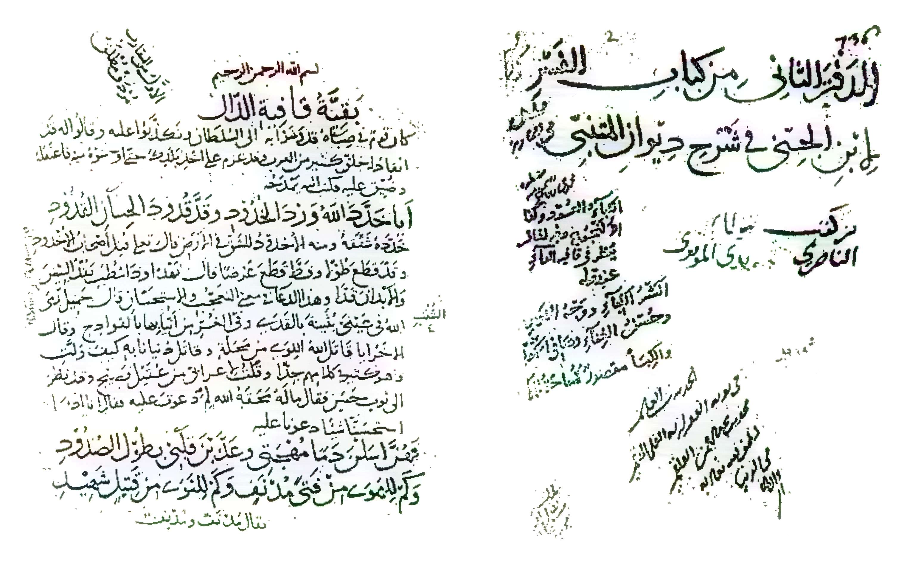 Ibn Jinni's Commentary on al-Mutanabbi's Poetry